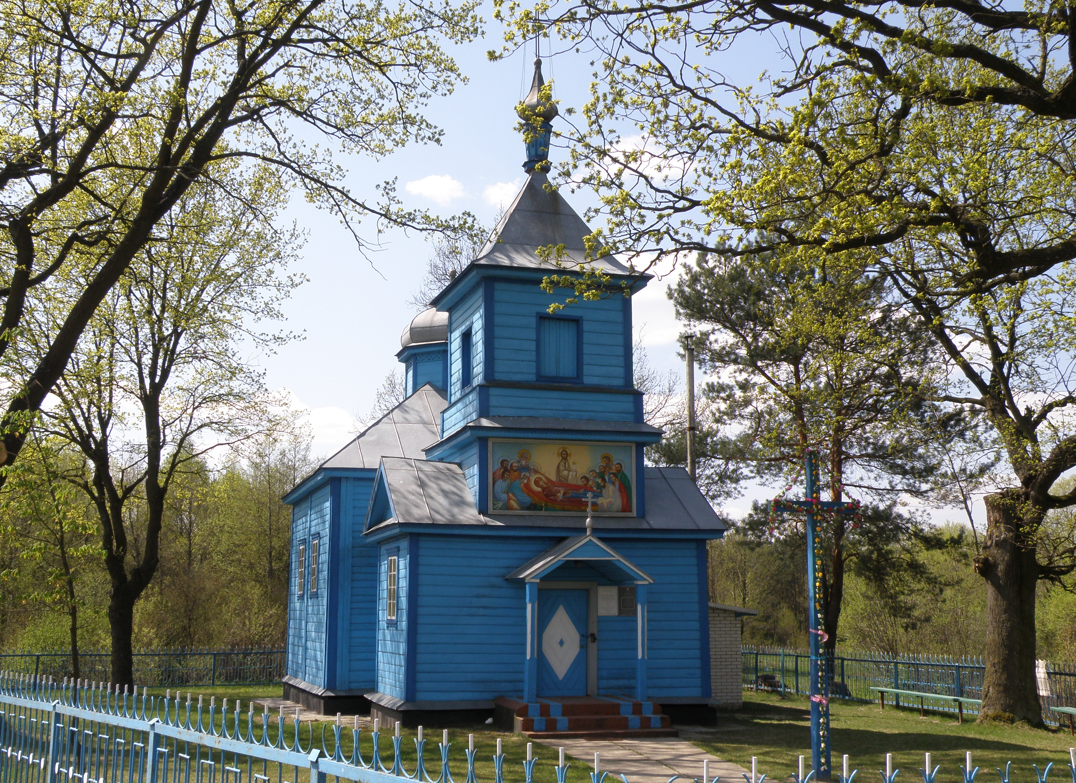 Church in Zapruddja village in Volun oblast(Ukraine).